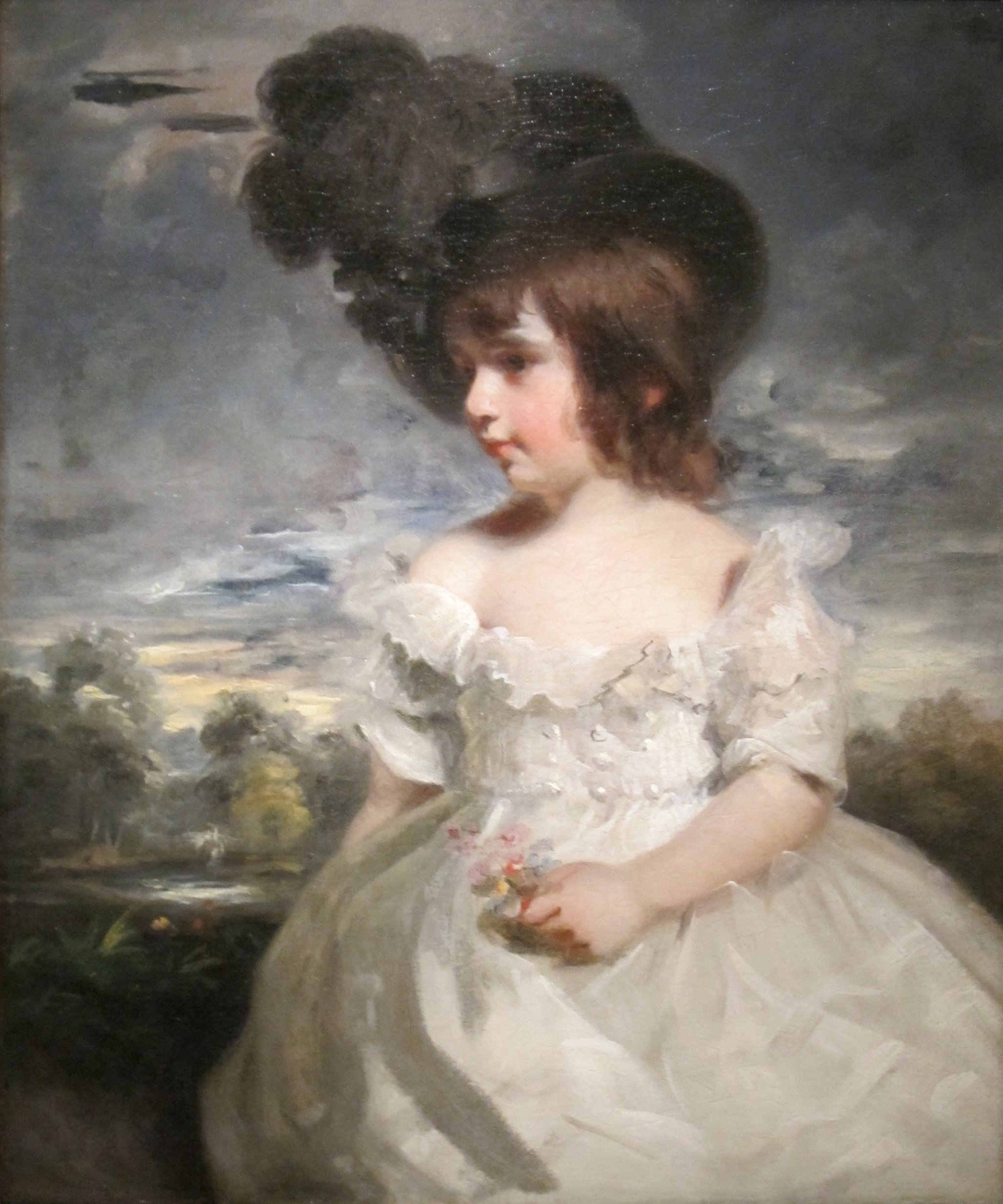 Master Meyrick (William Henry Meyrick in ruffled infant's dress)